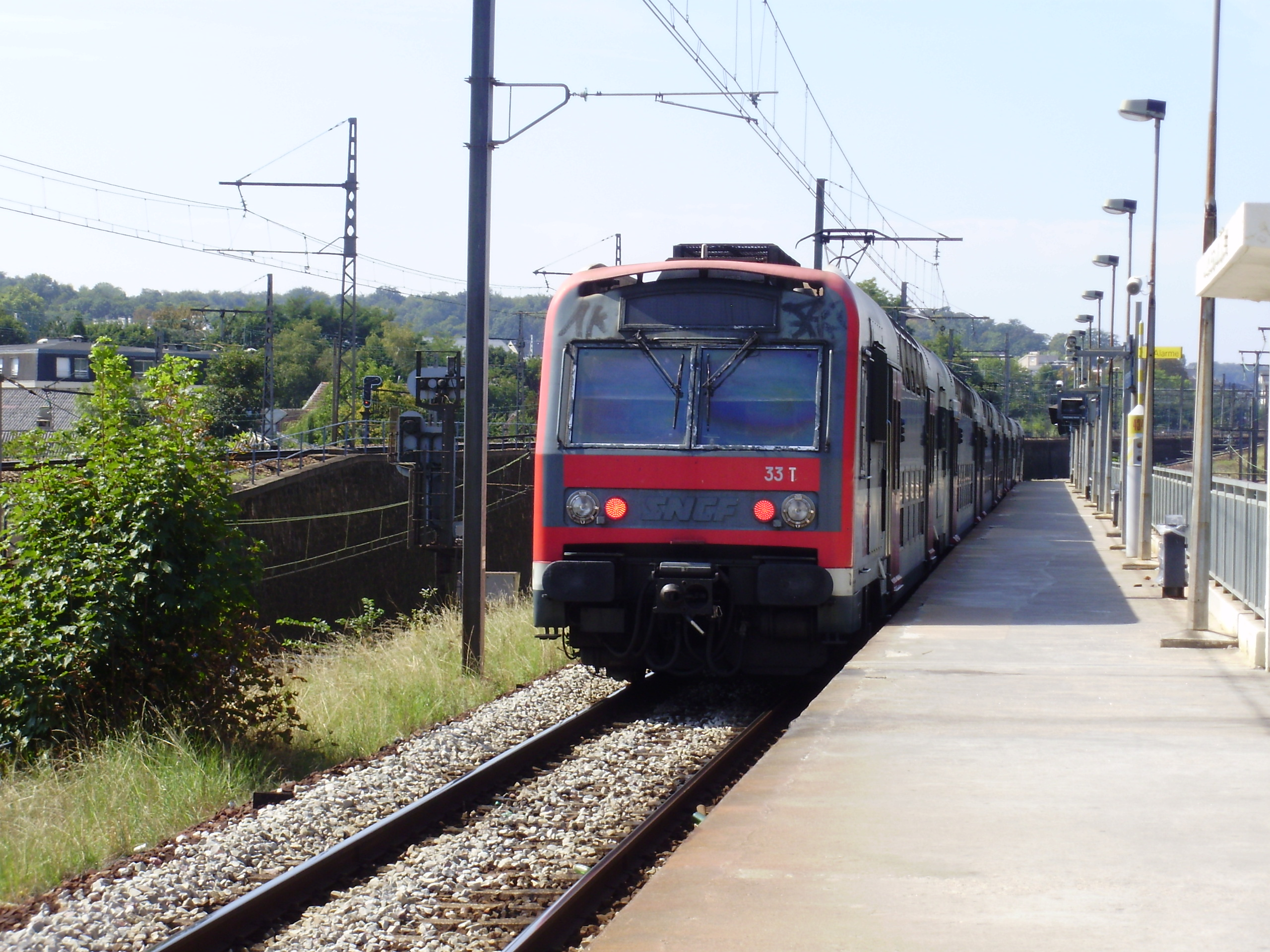 Porchefontaine station, in Versailles, Yvelines, France (high platform : train to Versailles-Rive-Gauche)